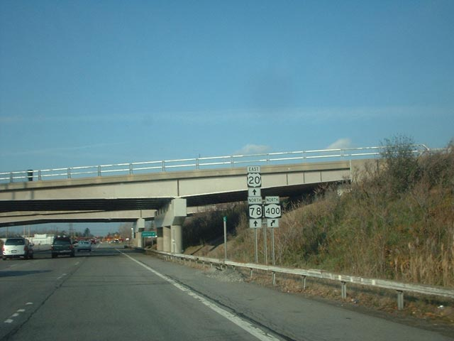 New York State Route 78 northbound at U.S. Route 20 eastbound at NY 400 (the Aurora Expressway) in West Seneca.